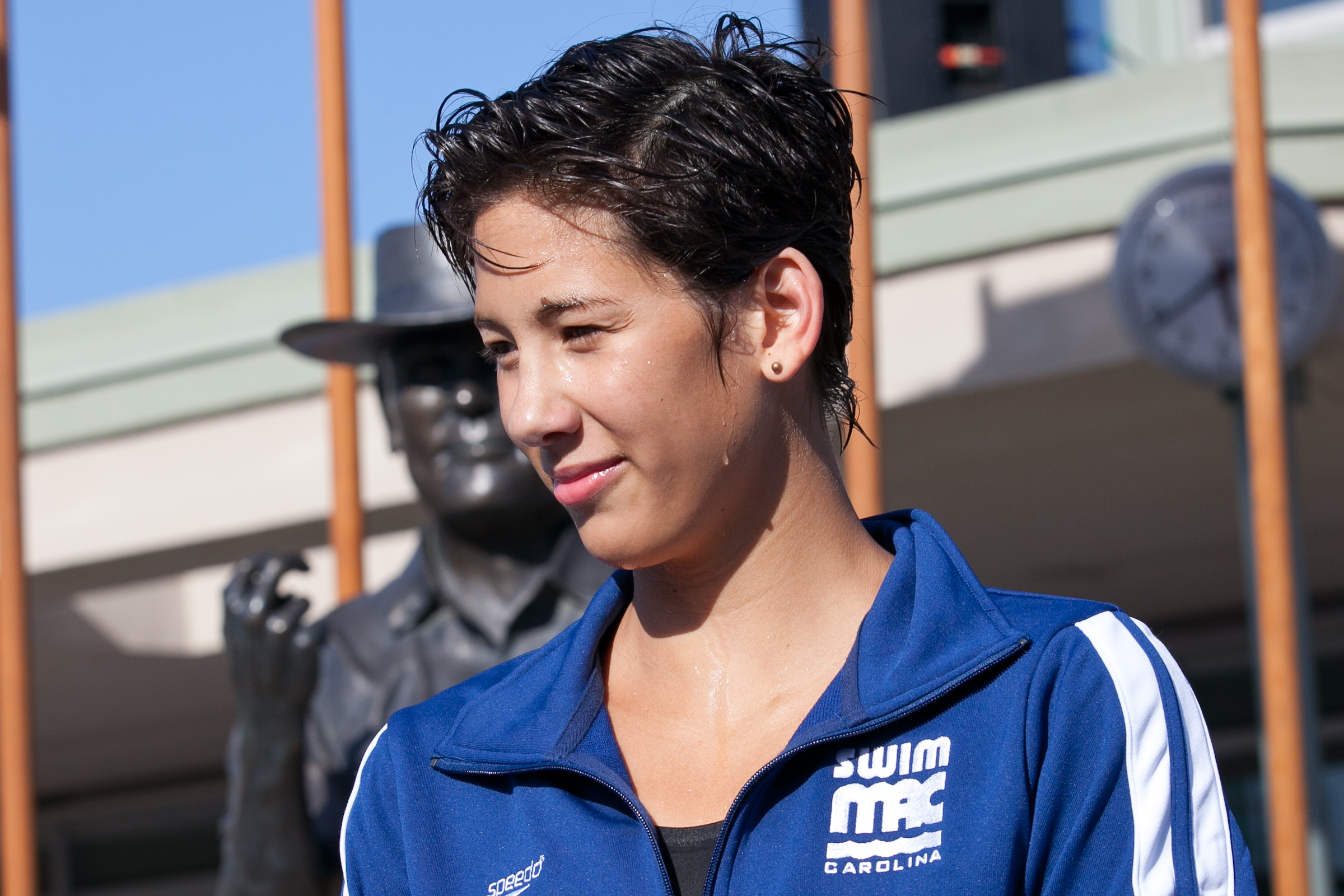 Micah Lawrence at the 2011 Santa Clara Invitational. Contact JD Lasica for re-publication rights at .